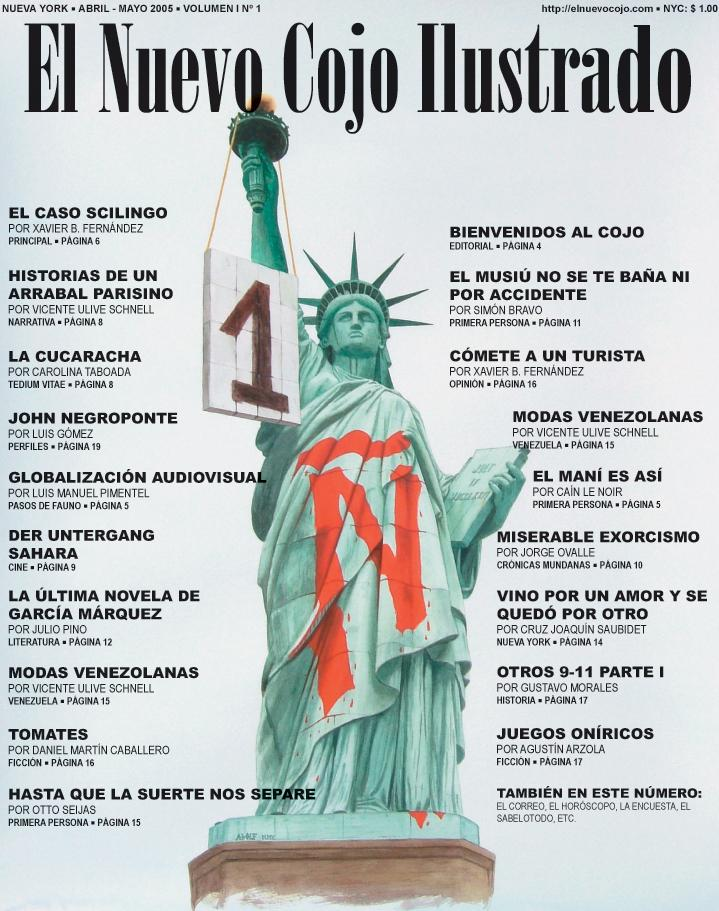 Frontpage of El Nuevo Cojo Ilustrado's first issue. April 2005.